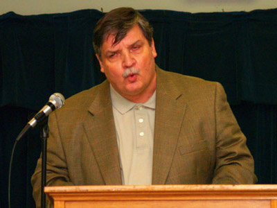 Michael Wallis speaking in Litchfield, Illinois